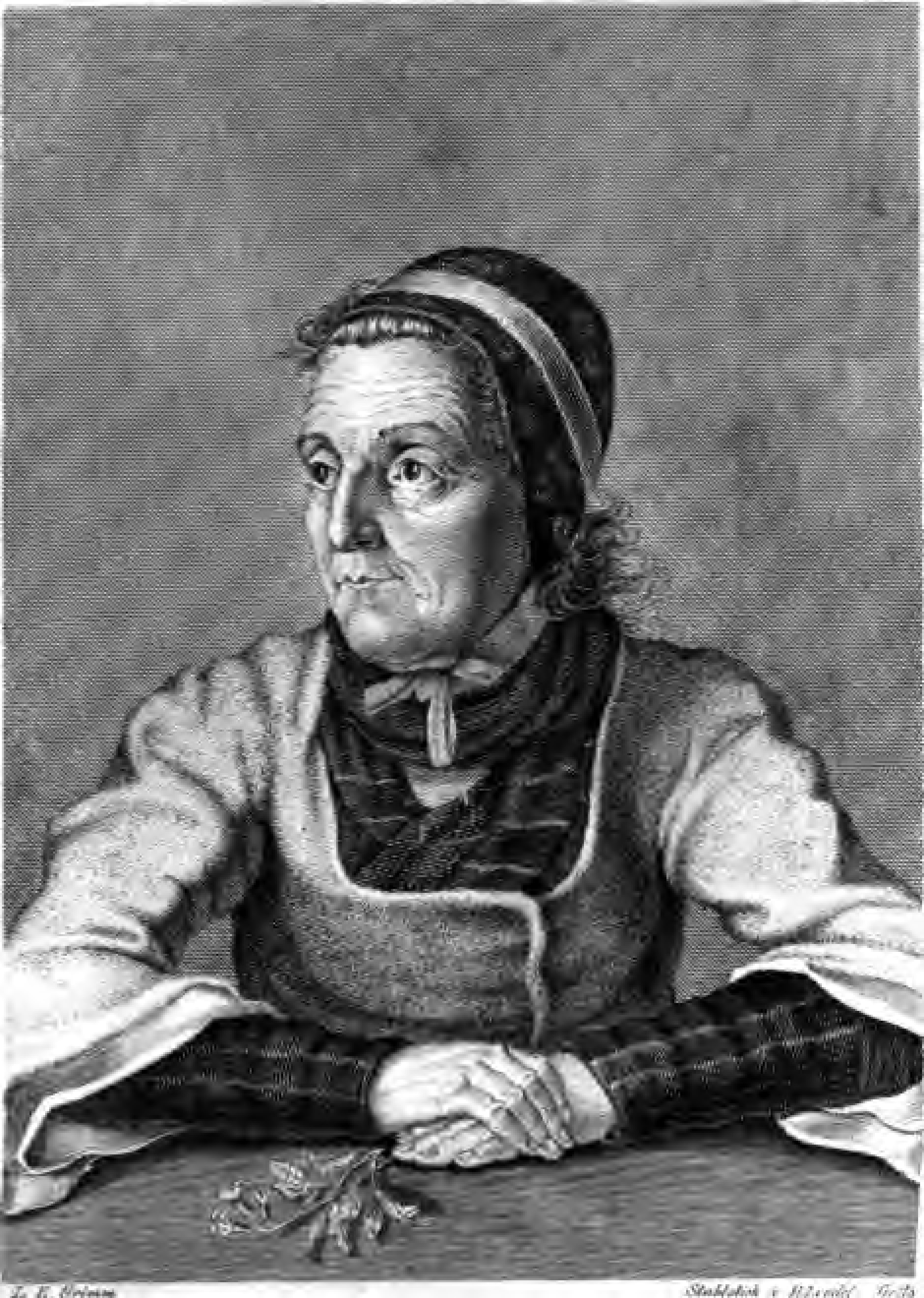 This is a scan of the historical document